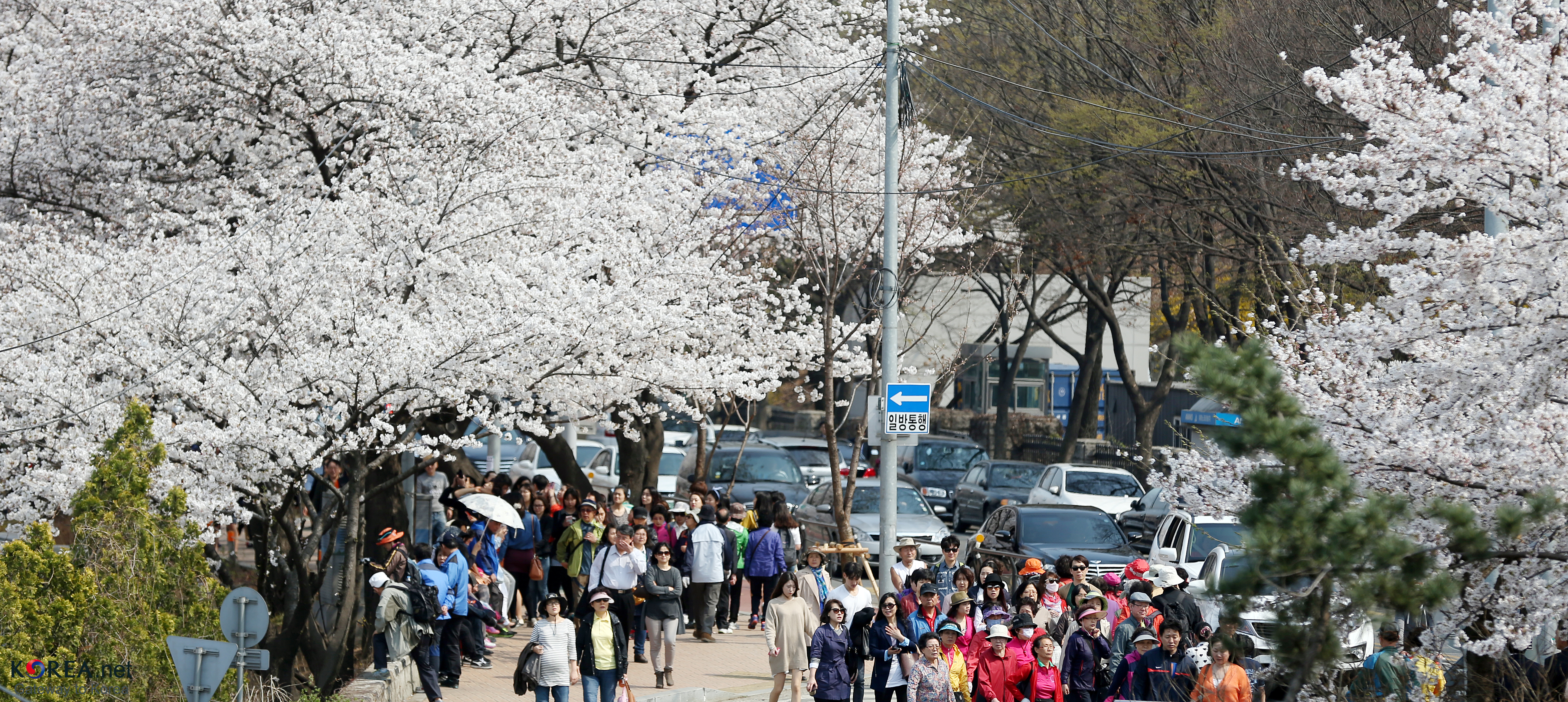 Spring flowers in full bloom in Seoul 2014.04.01. Yunjung-no, Yeouido, Seongdong-gu, Seoul Related Articles -English- Unusually warm spring moves up festival dates -中文- 春如夏花 樱花节提前到来 Ministry of Culture, Sports and Tourism Korean Culture and Information Service ( JEON HAN 봄 꽃이 만개한 서울 2014-04-01 서울시 영등포구 여의도동 윤중로 문화체육관광부 해외문화홍보원 코리아넷 전한